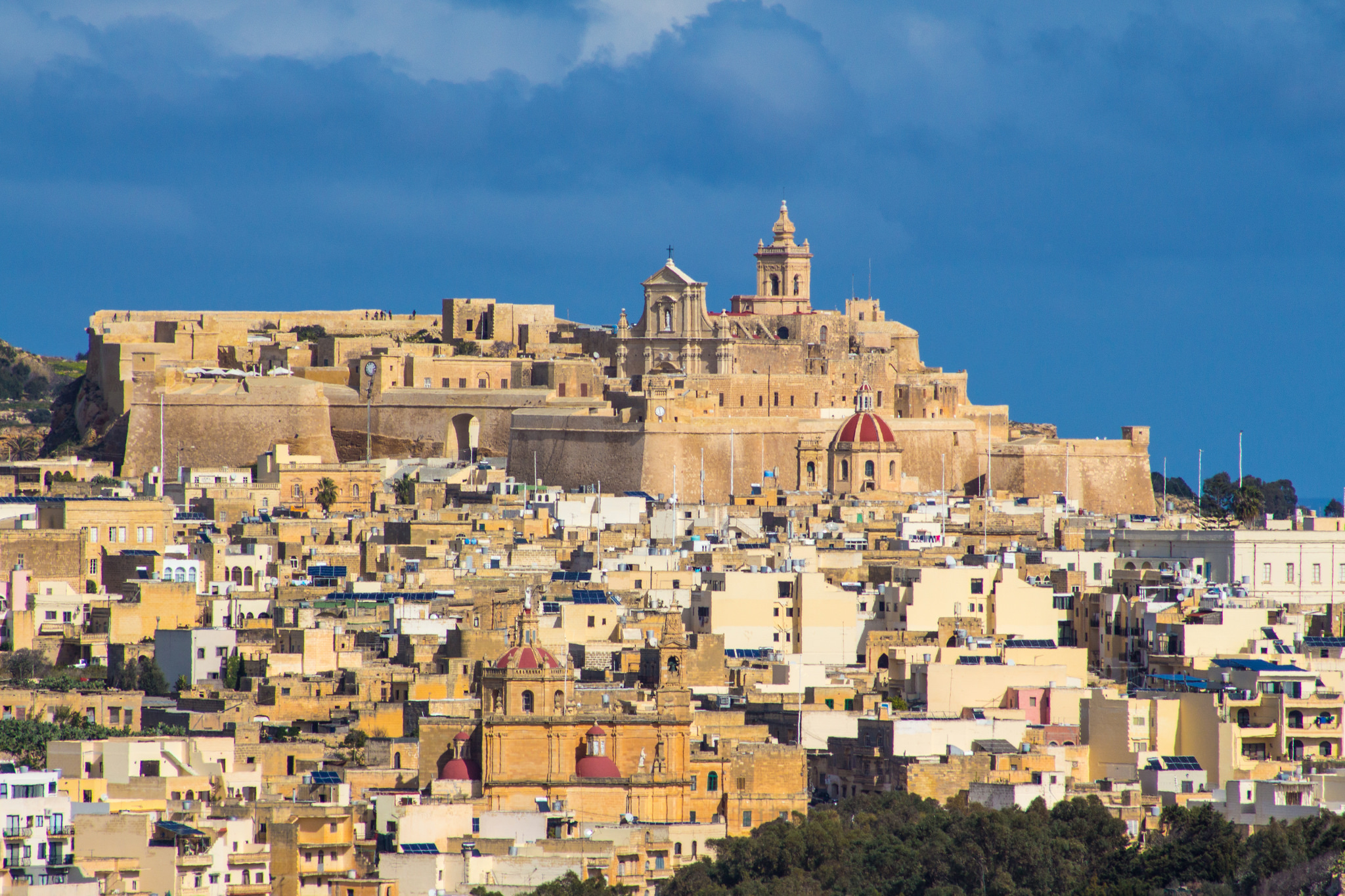 Citadel This media is about Maltese cultural property with inventory number 00003.